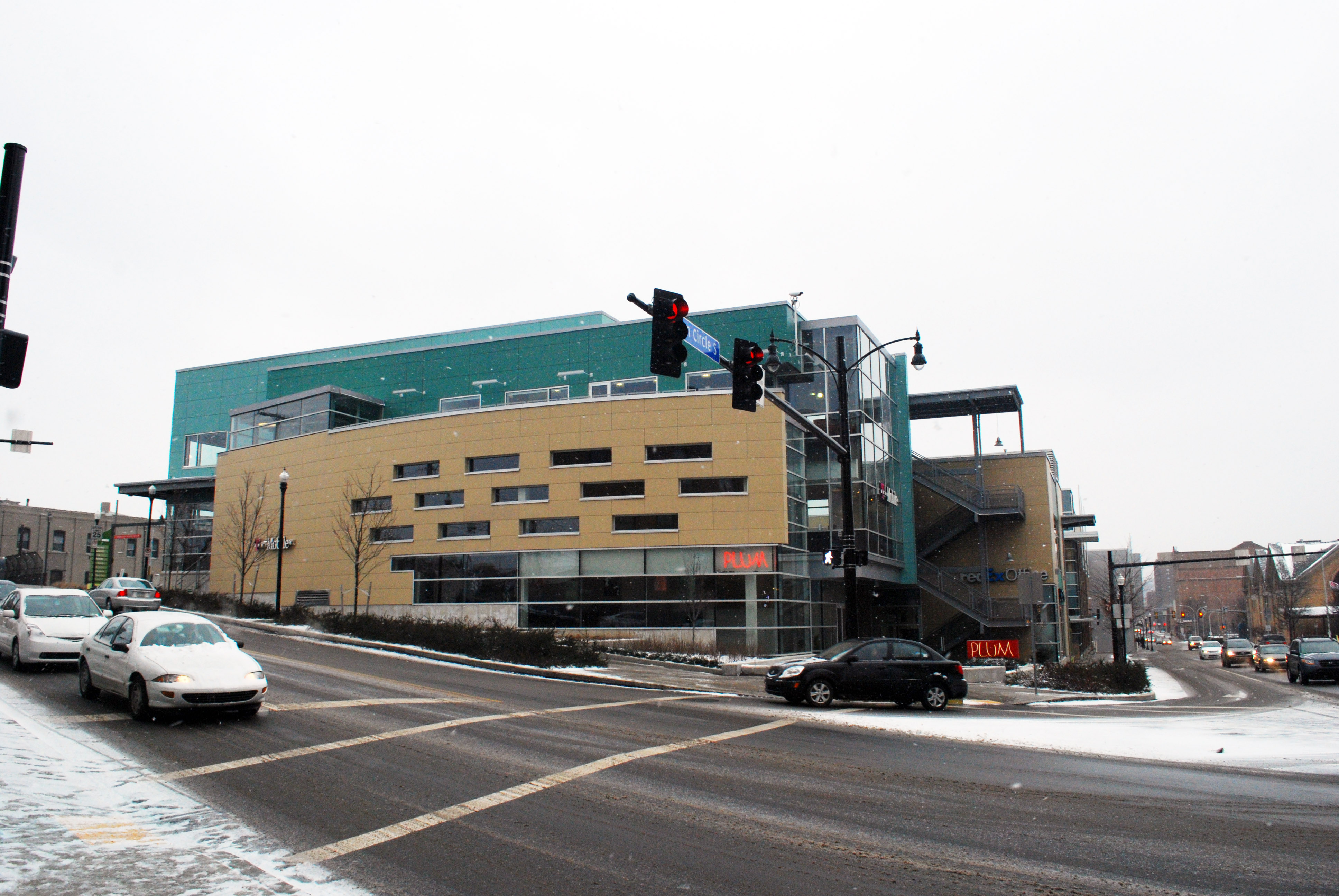 The EastSide Development, located in East Liberty, Pittsburgh.